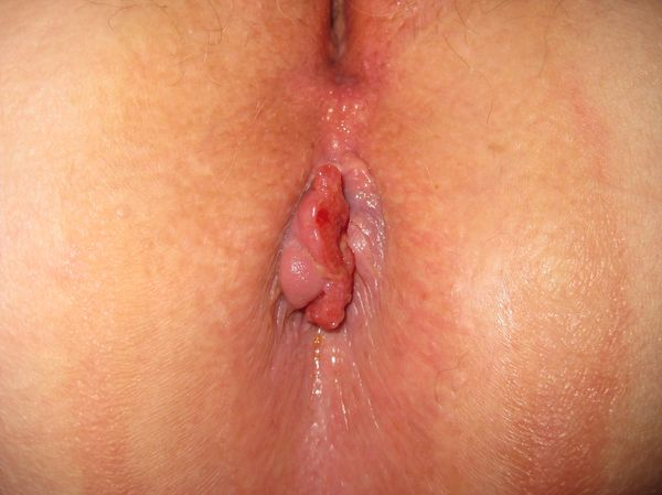 Carcinoma of the anal canal.